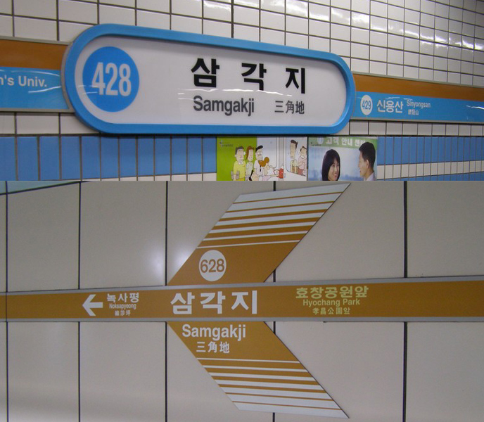 Samgakji Station